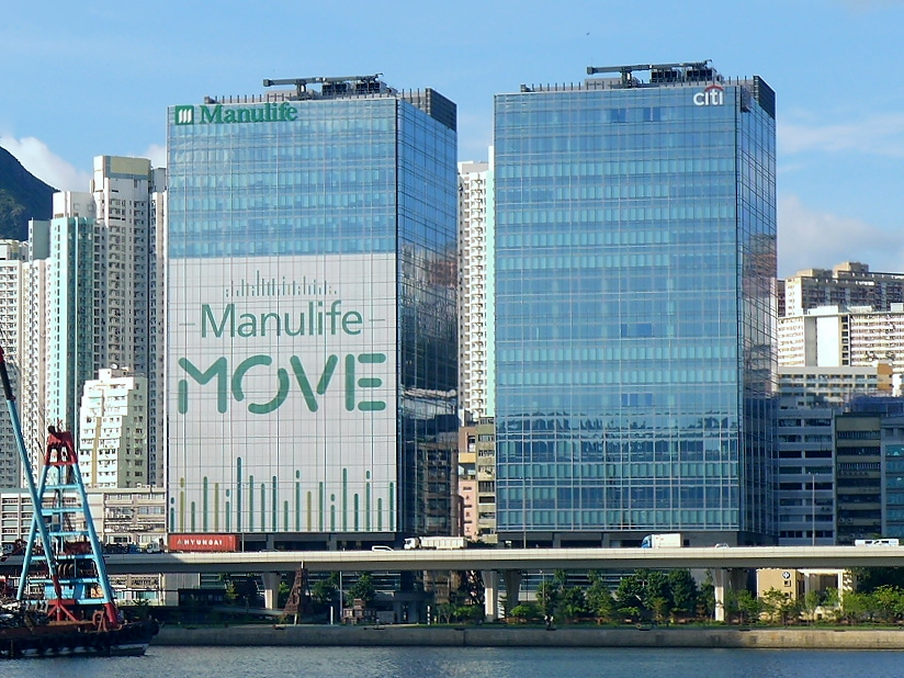 One Bay East